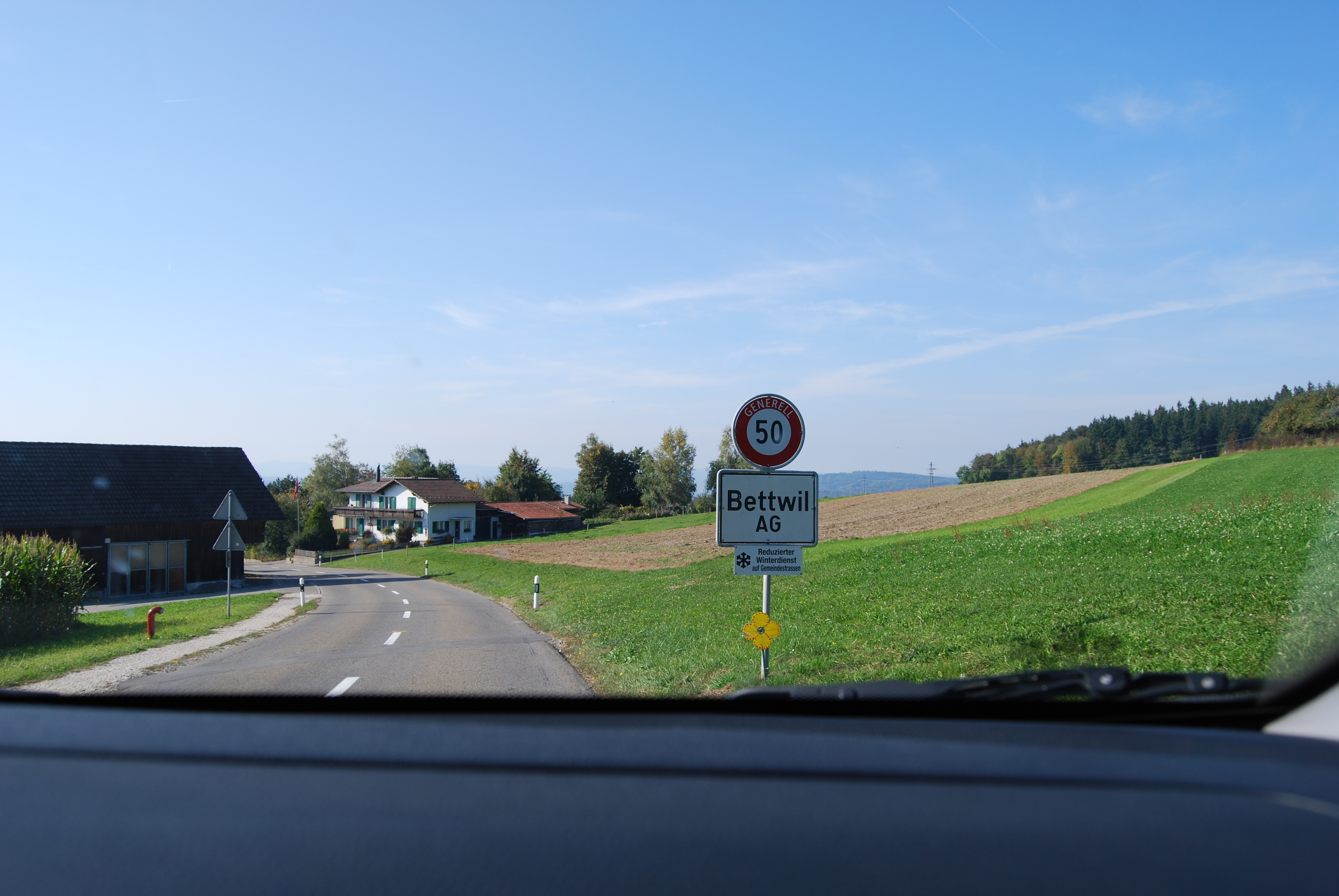 Village entry of Bettwil, canton of Aargau, SwitzerlandEsperanto: Vilaĝalveturejo de Bettwil, Kantono Argovio, Svislando